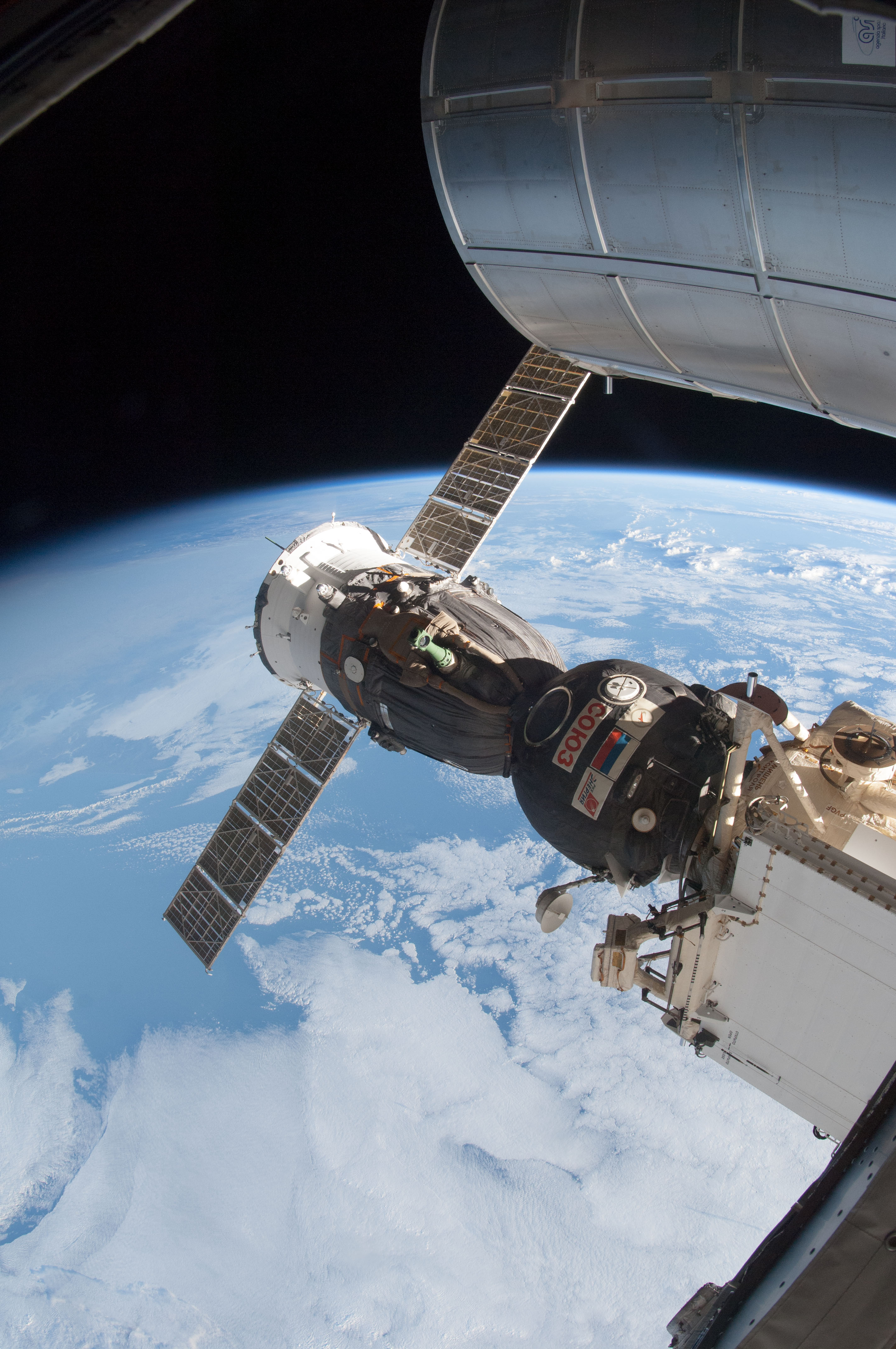 Clouds form the backdrop for this scene photographed by one of the Expedition 34 crew members aboard the International Space Station, with the Soyuz 33 (TMA-07M) docked to the Rassvet Mini-Research Module 1 (MRM1). The Permanent Multipurpose Module (PMM) is visible top right.